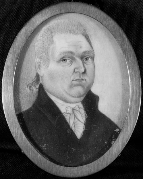 Samuel Hitchcock, Vermont lawyer and judge